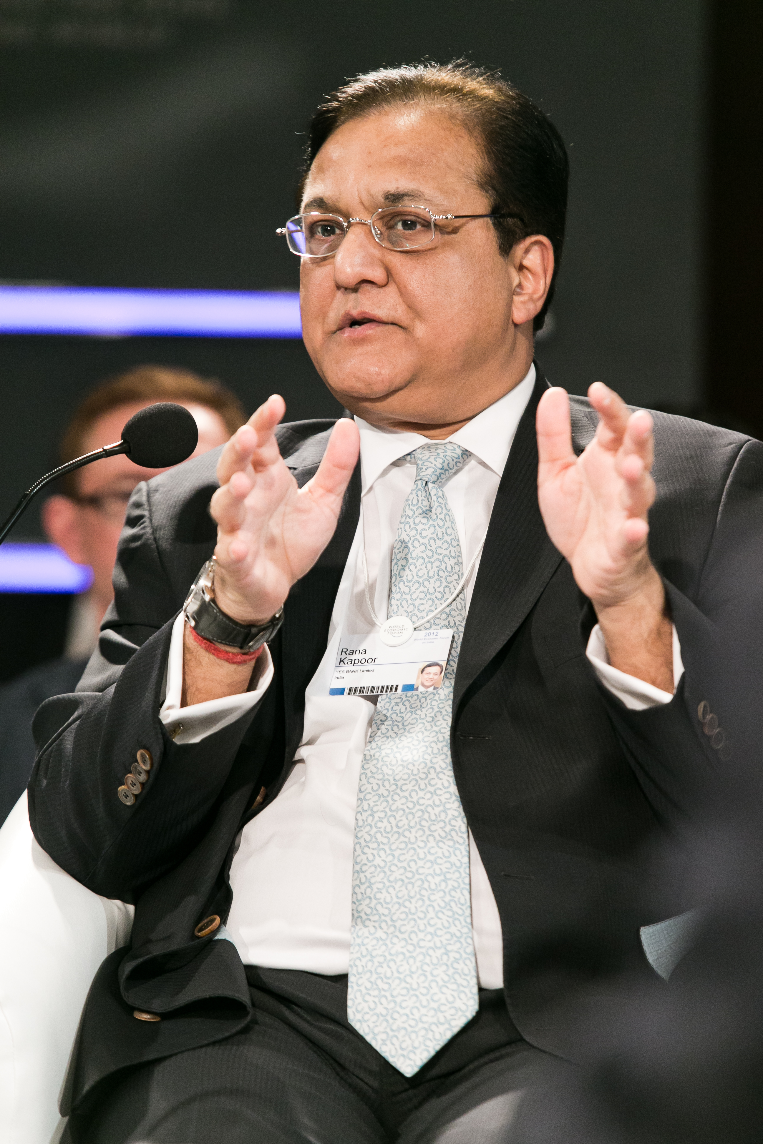 Rana Kapoor, Founder, Managing Director and Chief Executive Officer, YES BANK, India at the World Economic Forum on India 2012. Copyright World Economic Forum / Photo by Benedikt von Loebell